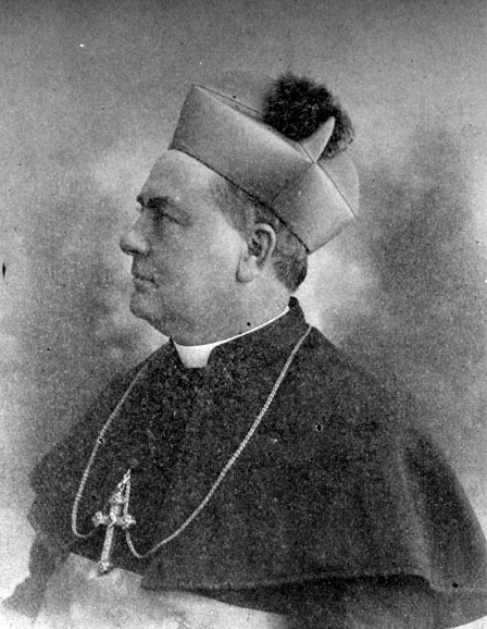 Depicted person: James Augustine McFaul – Bishop of the Roman Catholic Diocese of Trenton